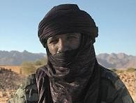 Aghaly Ag Alambo, Movement of Nigeriens for Justice